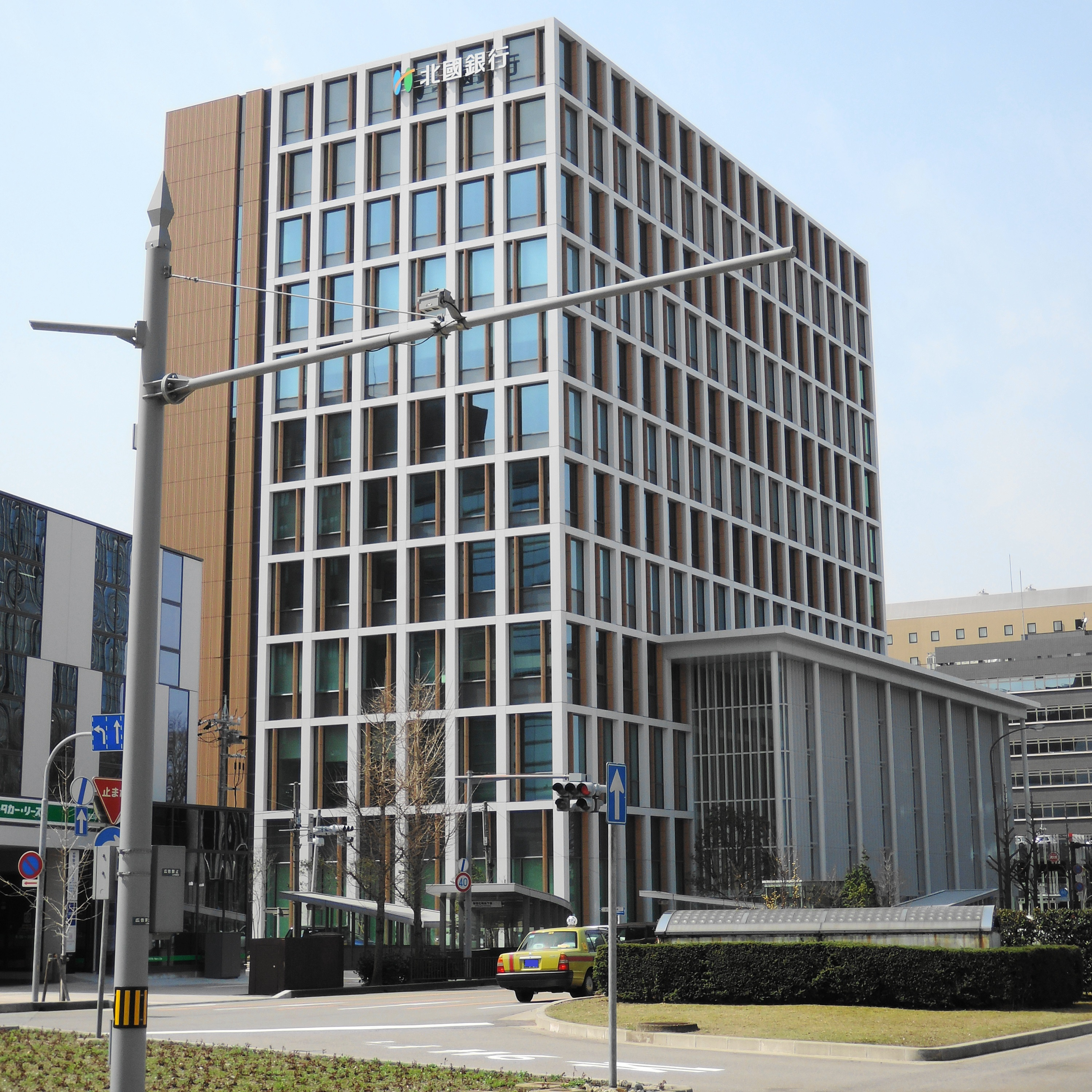 Headquarters of Hokkoku Bank,Ishikawa prefecture,Japan